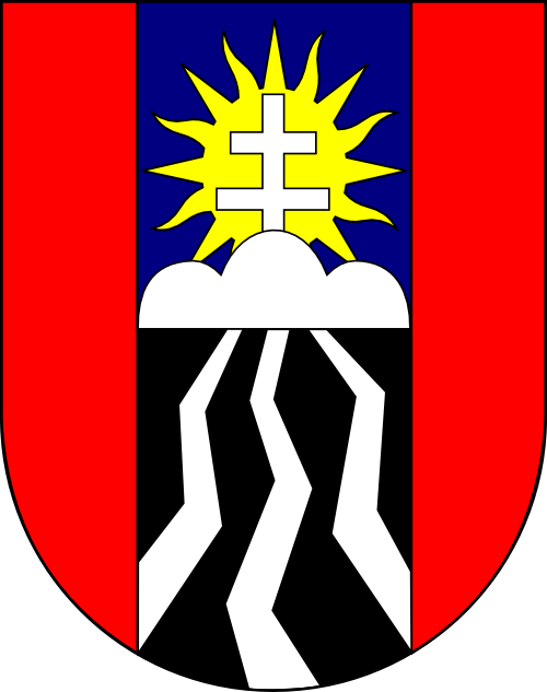 Coat of arms (shield only) of Dominik Hrušovský, auxiliary bisho pof Bratislava - Trnava, Slovakia (1992 - 1996).